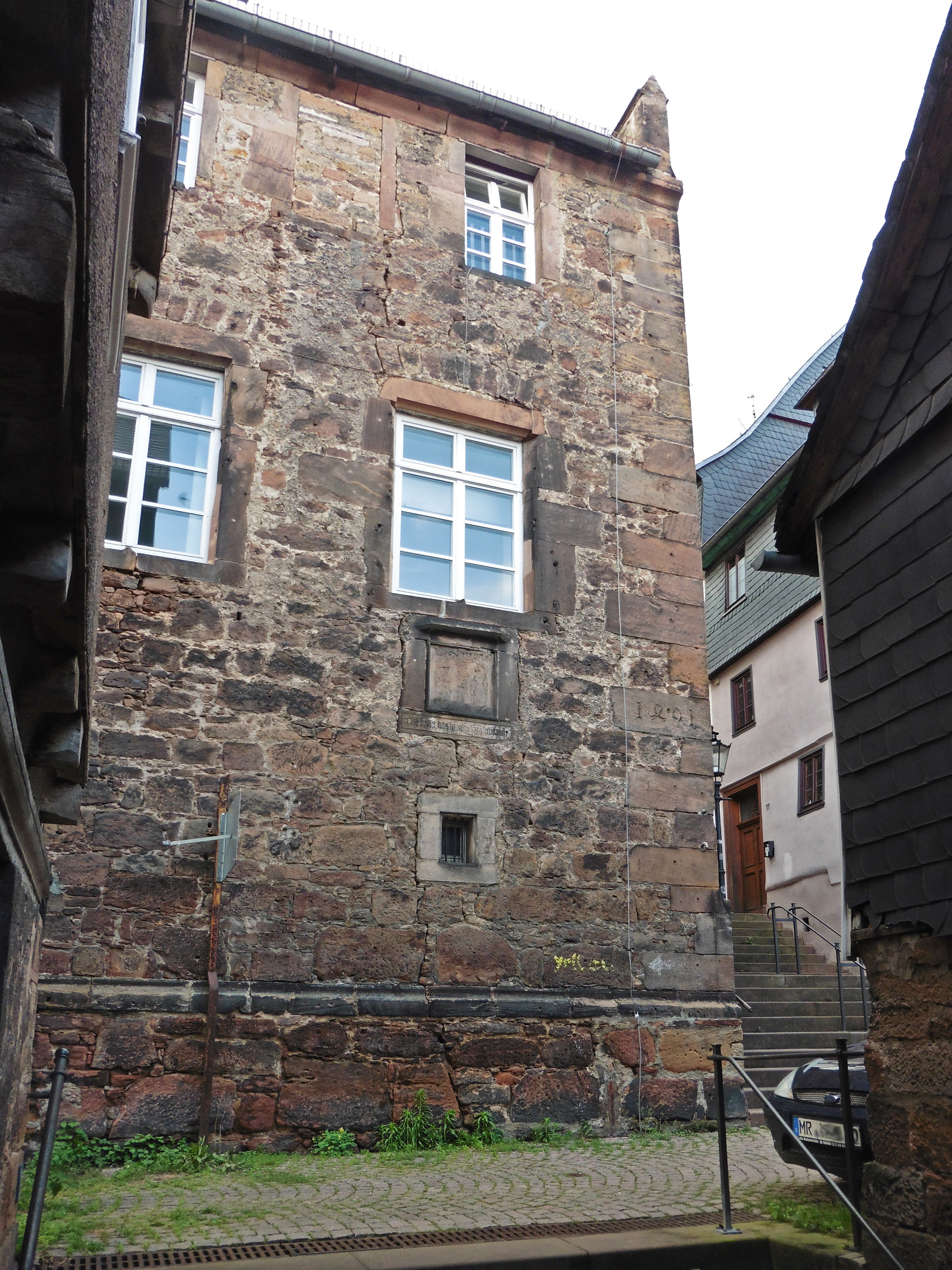 Marburg, Kugelgasse 10, Kugelhouse southeastern corner with inscription from 1491, seen from South.